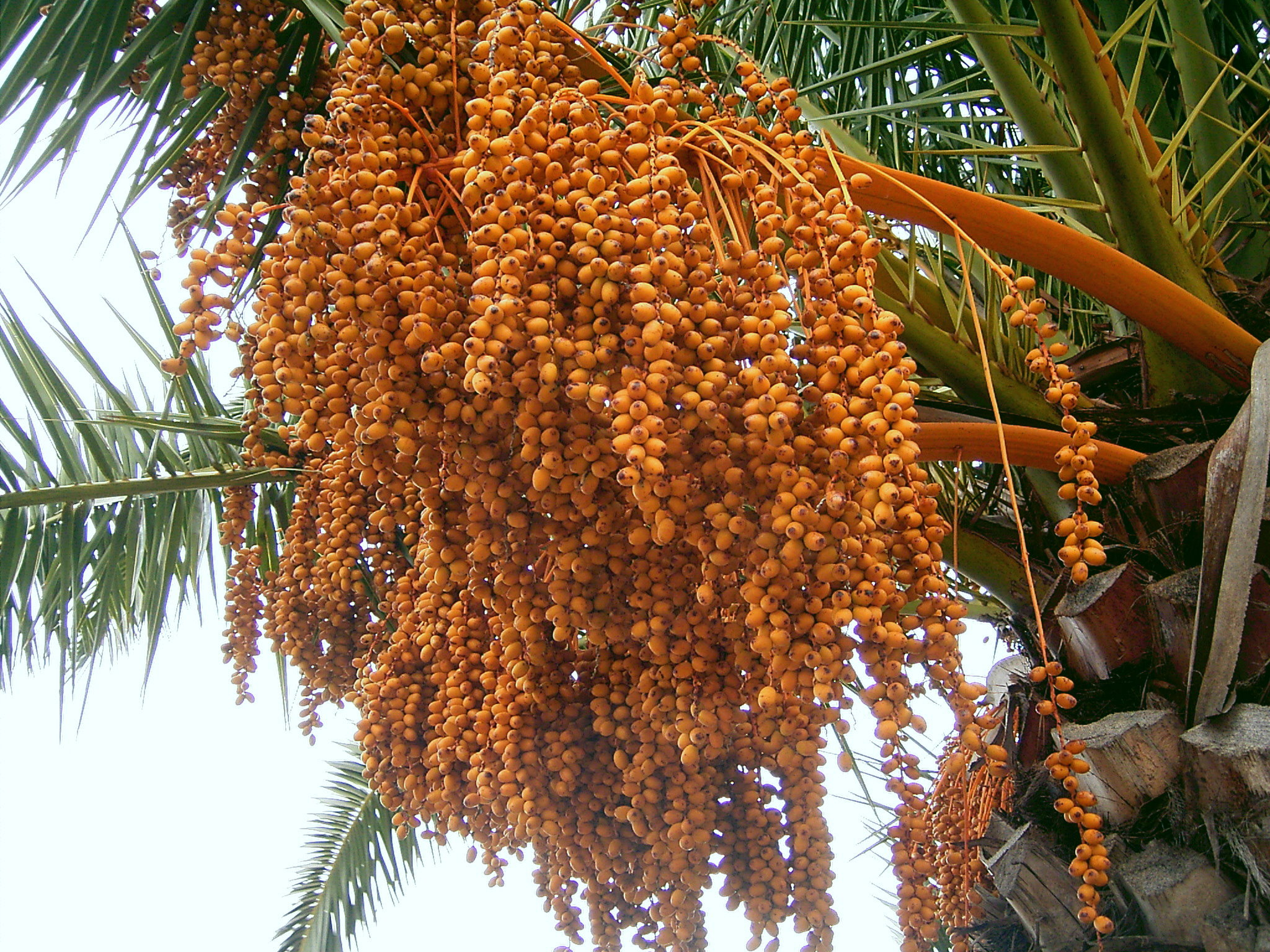 Phoenix canariensis growing in Barlovento, La Palma, Canary Islands